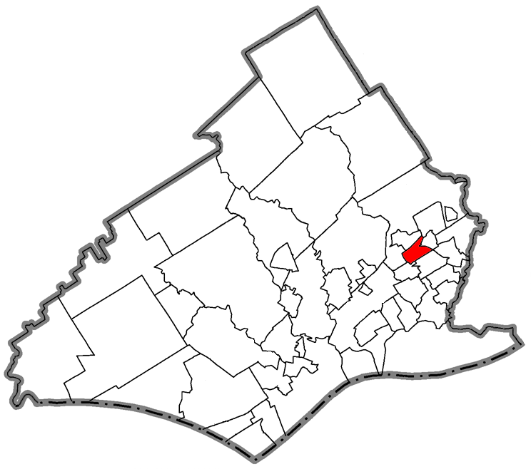 Showing the location within Delaware County, Pennsylvania.